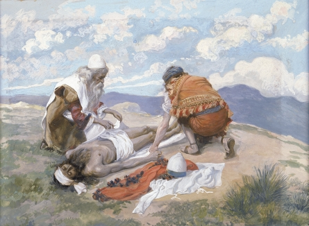 The Death of Aaron, c. 1896-1902, by James Jacques Joseph Tissot (French, 1836-1902) or a follower, gouache on board, 7 7/8 x 10 3/8 in. (20 x 27.8 cm), at the Jewish Museum, New York